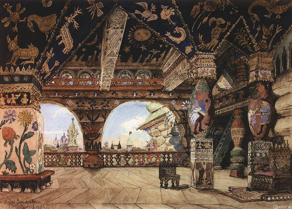 Chambers of the Tsar Berendey 1885 Viktor Mikhailovich Vasnetsov